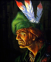 I snapped this image with my digital camera at a public display in a New England federal park. This illustration of Major Robert Rogers was assumedly painted in the 19th century.